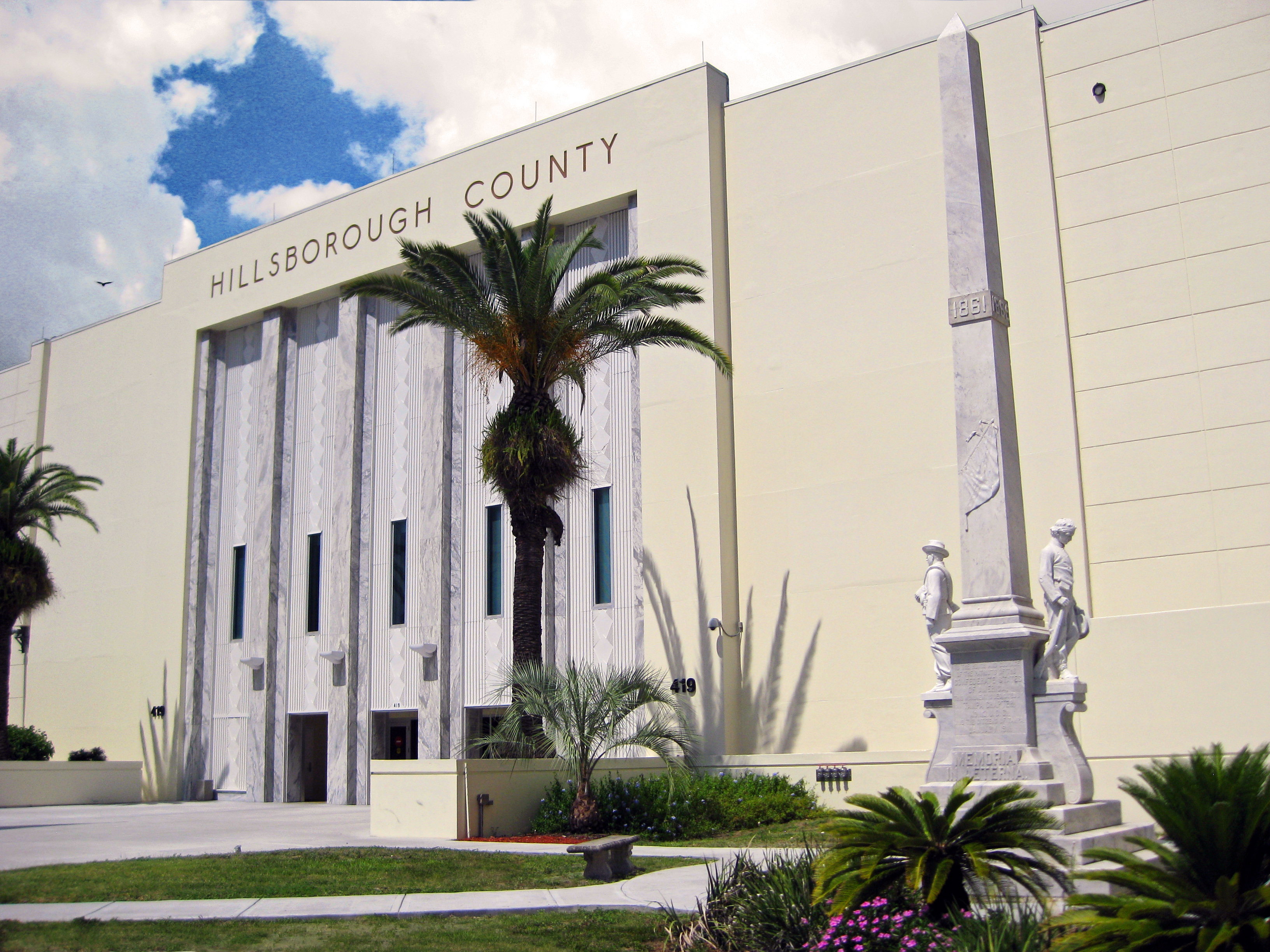 The main entrance to Hillsborough County's Courthouse in Tampa, Florida, is shown with the county's Confederate Memorial in the foreground.